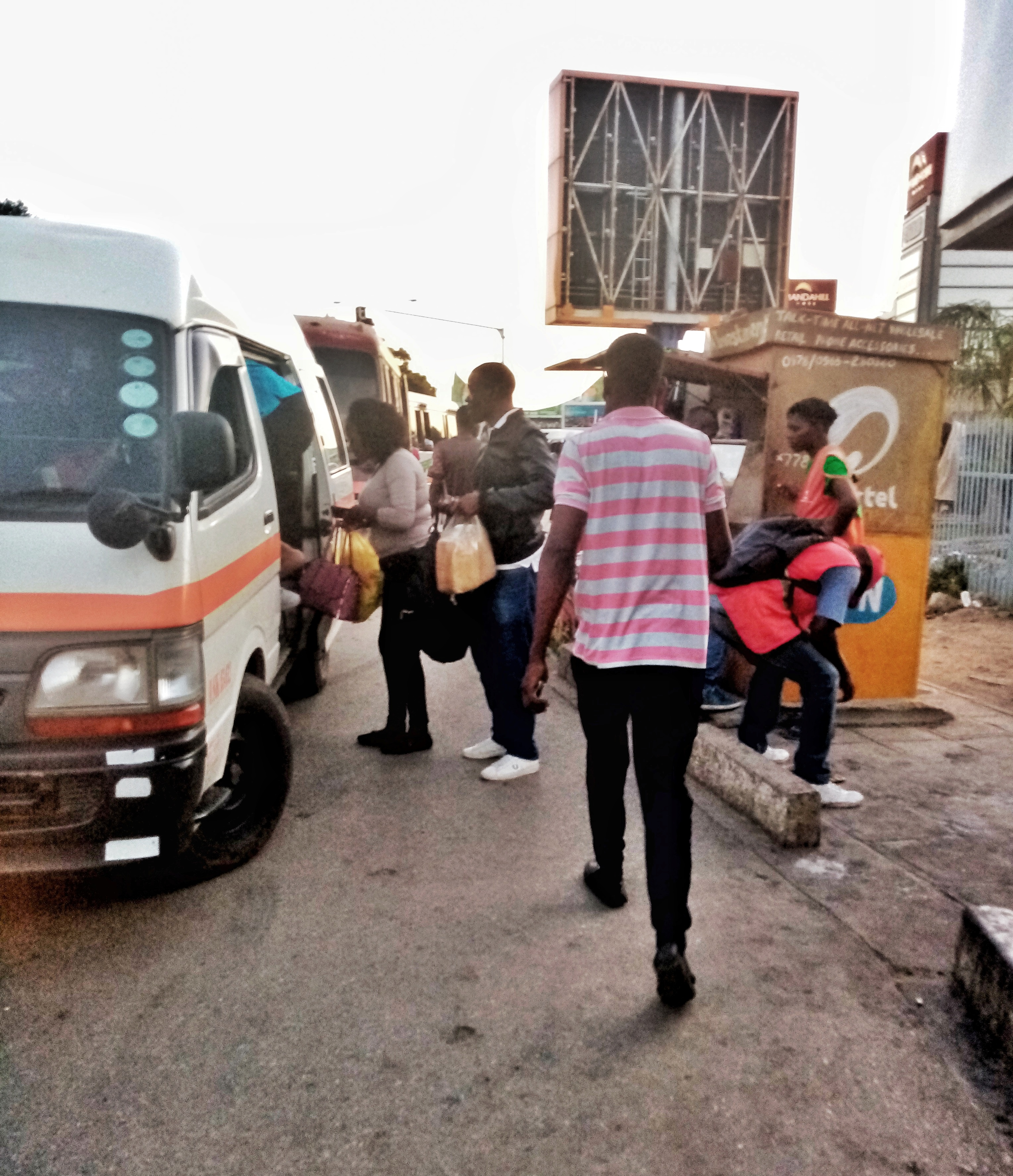 Pedestrian getting on minibus at local bus stop in Lusaka This is an image with the theme "Africa on the Move or Transport" from: Zambia